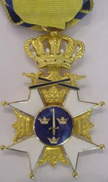 Cross of a Knight of the Order of the Sword, Sweden